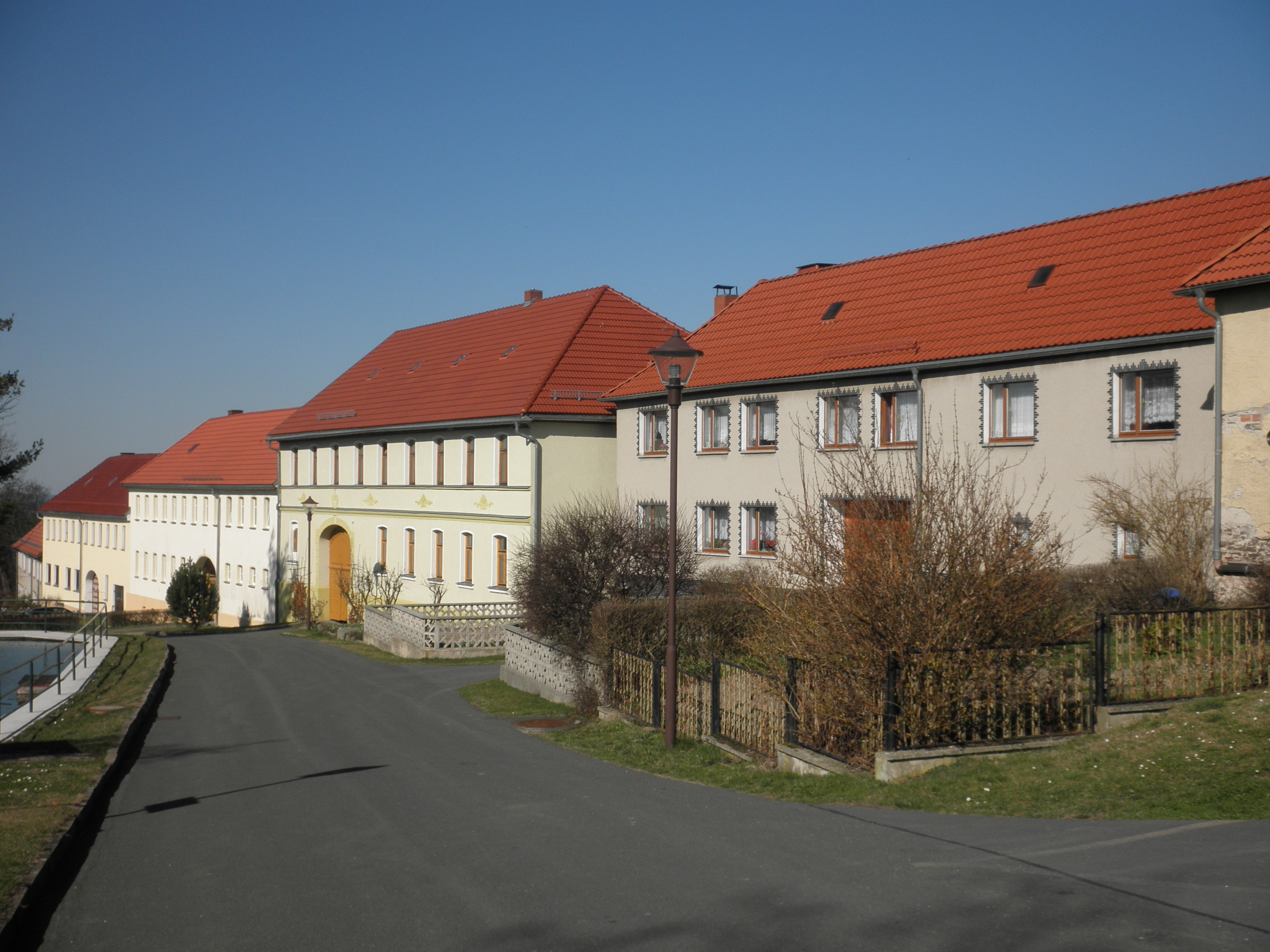 Farmers Houses in Quaschwitz in Thuringia